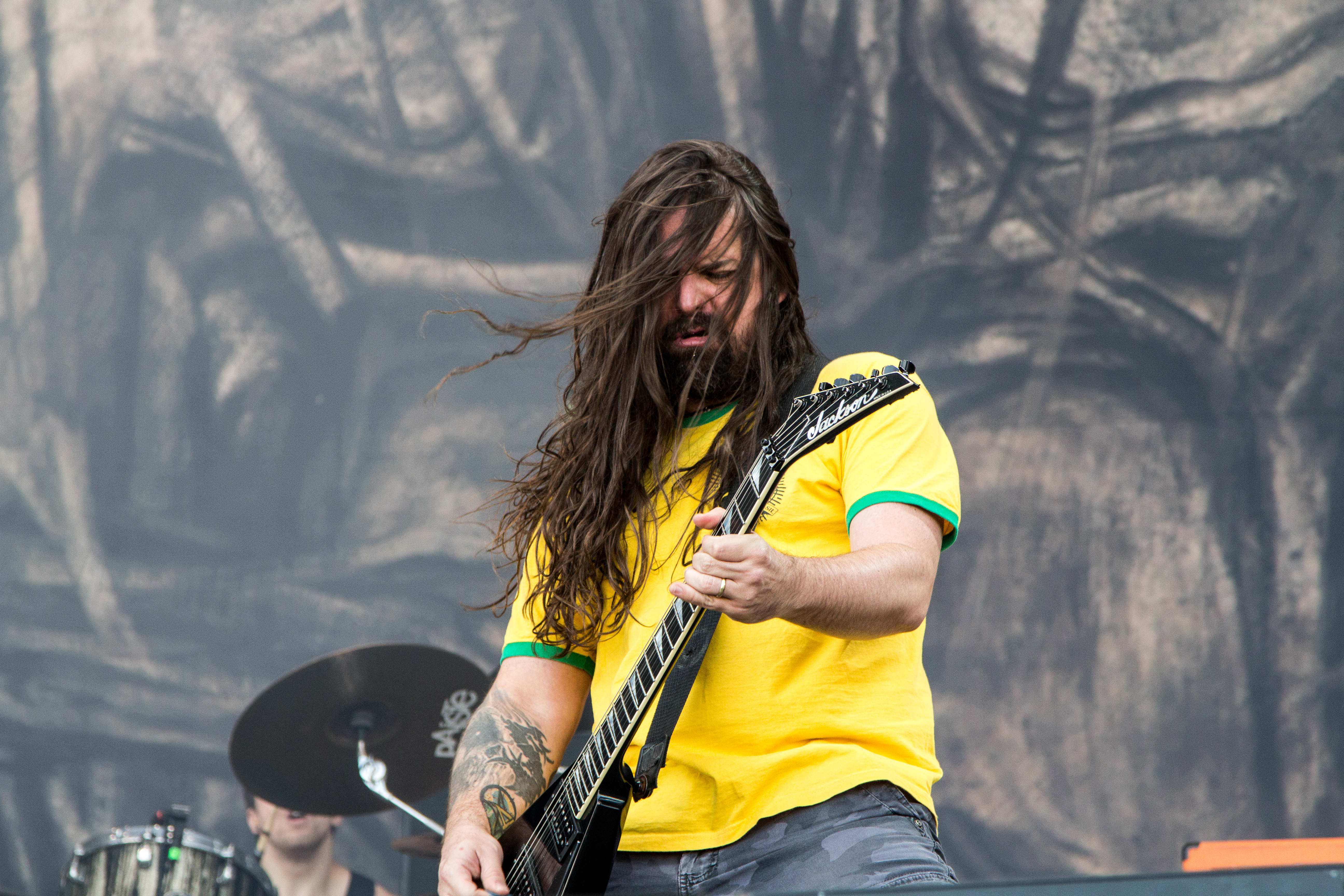 Andreas Kisser from Sepultura at Nova Rock 2014